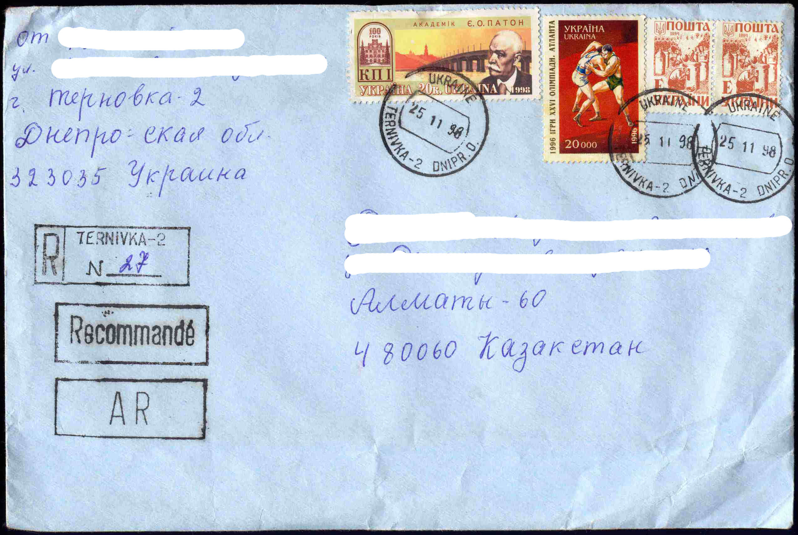 Posted registered letter cover with 4 Ukrainian stamps and registered letter postmarks and Ternivka-2 calendar postmark dated 25 November 1998.